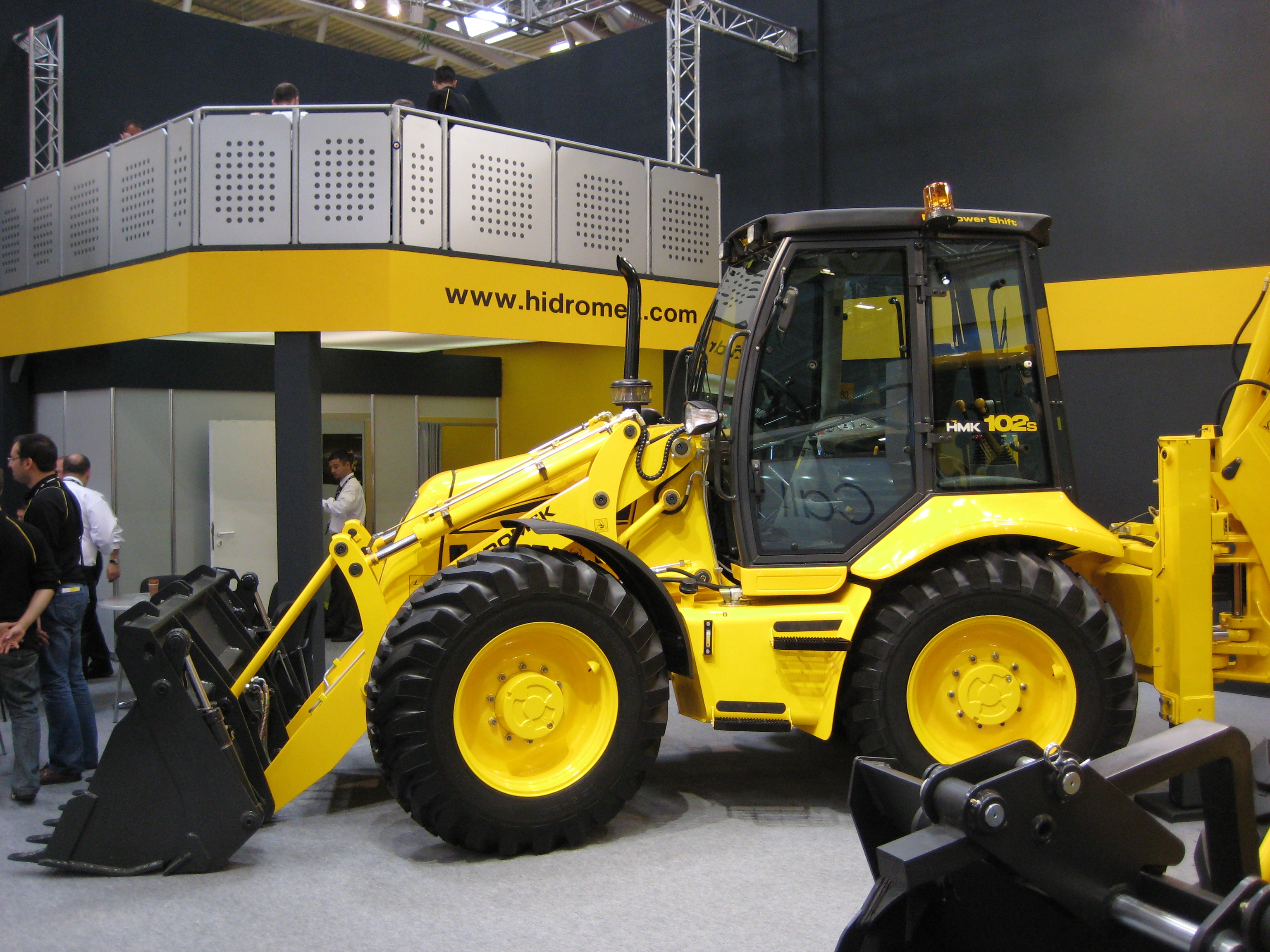 BAUMA 2007, Backhoe loader, Hidromek